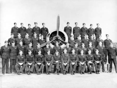 A group portrait of No. 33 Course at Number 5 Service Flying Training School (SFTS) on their graduation. The men are seated in front of a CAC Wirraway training aircraft.